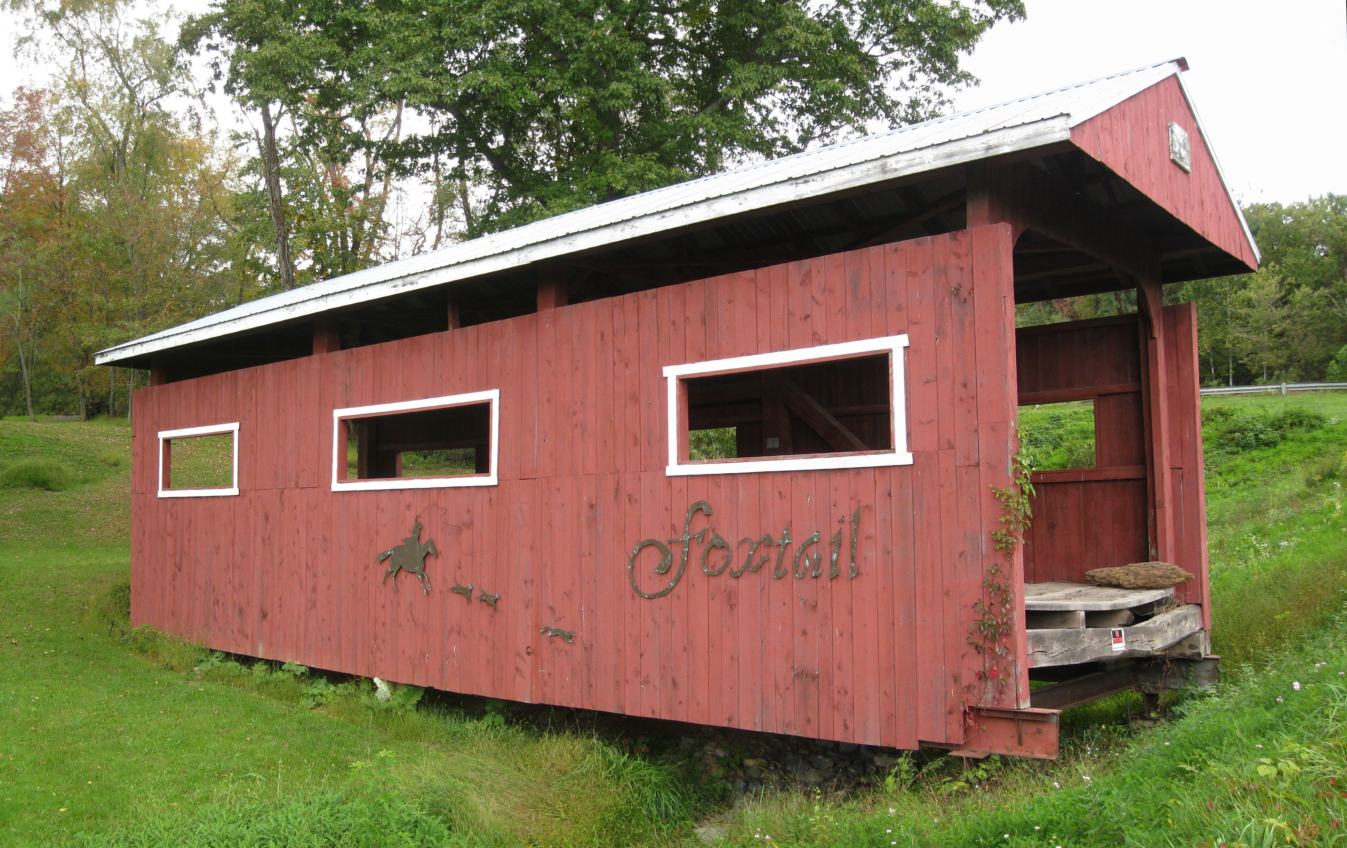 Wagner Covered Bridge No. 19 originally built in 1856 over the North Branch of Roaring Creek in Locust Township in Columbia County, Pennsylvania, in the United States. Dismantled in 1981, then rebuilt in 1994 in Hemlock Township in Columbia County at the entrance to the Foxtail housing development southwest of Bloomsburg. Current coordinates are .